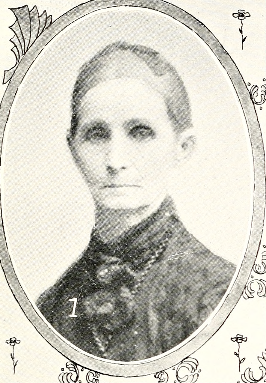 1 — Mrs. Lucina Coffin, wife of Stephen Coffin, aged ninety-two years. 2 — Charles Ray, carried first United States mail out of Portland, aged eighty-one years. 3 — A. B. Stewart, carried United States military dispatches during Indian wars, aged eighty-one years. 4 — Mrs. Julia Wilcox, wife of the first physician in Portland, aged ninety-two years. All still living in Portland except Mrs. Coffin, who passed away a few months ago. From Gaston's Portland, Oregon, its History and Builders volume 1